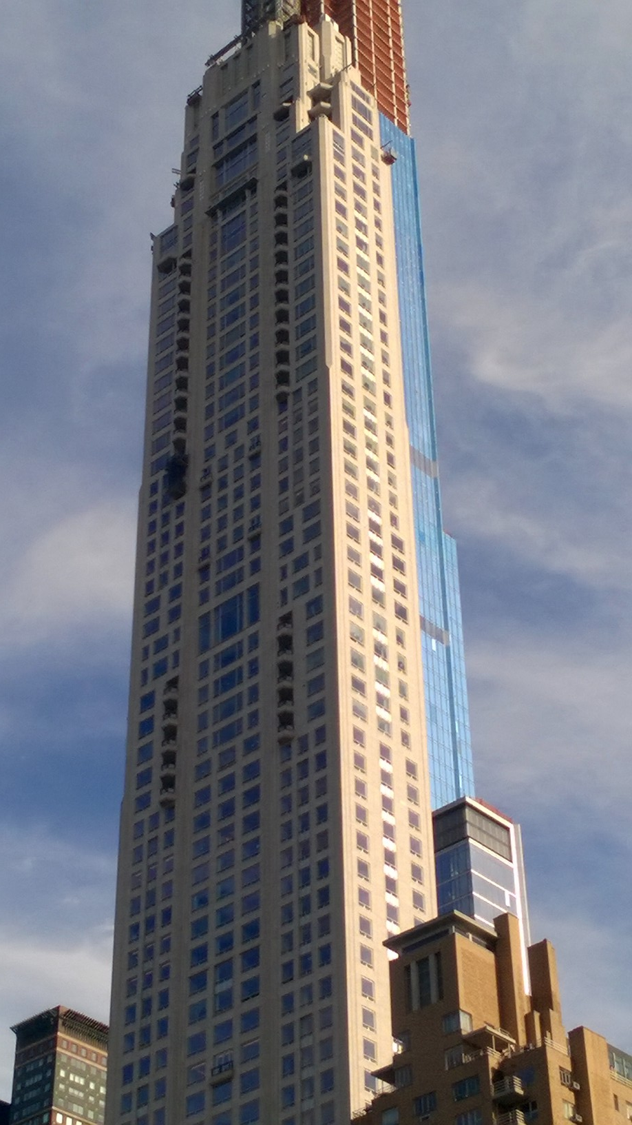 Exterior shot of 220 Central Park South in New York City.